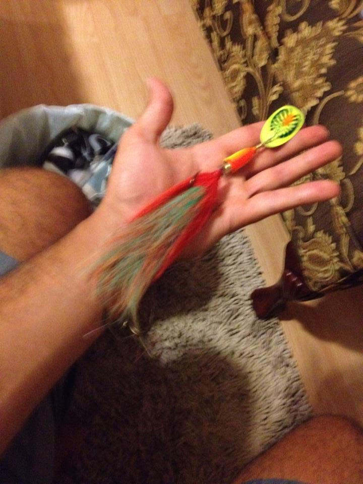 The bluefox bucktail lure is a common large bait used when fishing for muskellunge. This lure creates an attractive vibration and can be swam at various depths depending on reeling speed.